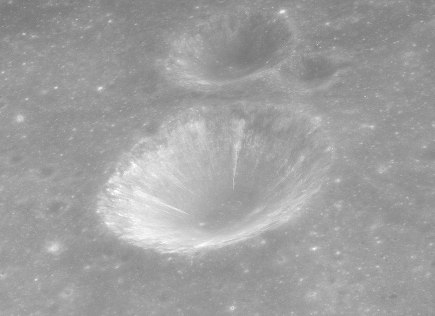 Oblique view of Franck crater, on the moon, facing north.